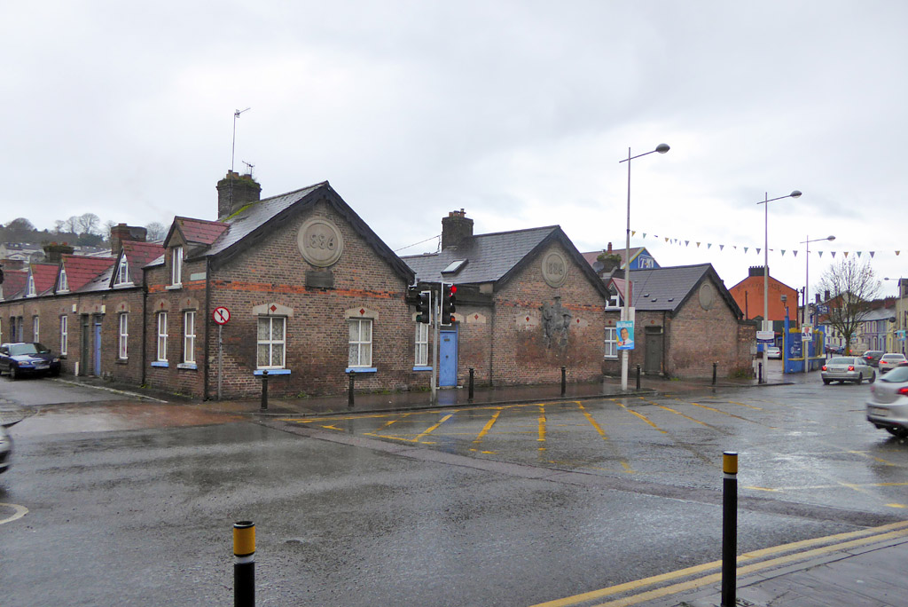 Madden's Buildings, Cork